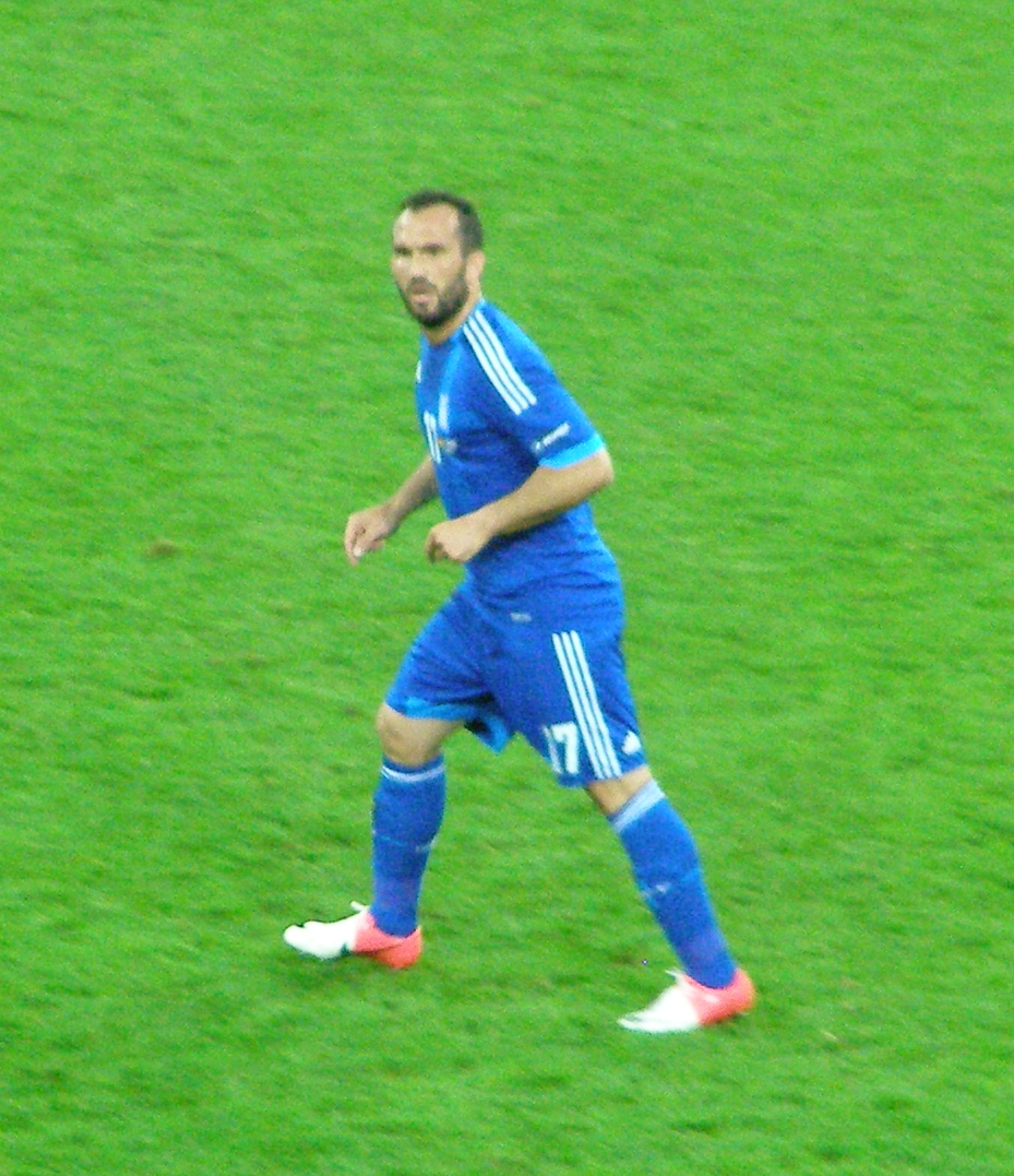 Gdańsk - PGE Arena - Euro 2012 - quarter final match Germany - Greece - Theofanis Gekas